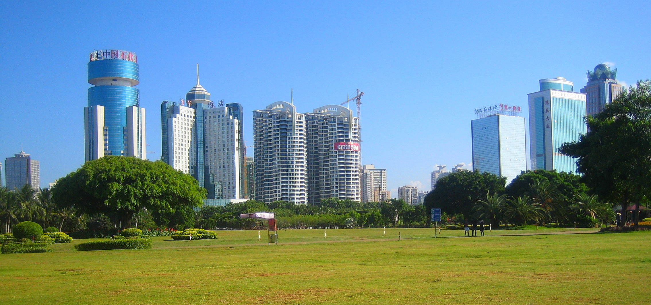 Haikou skyline